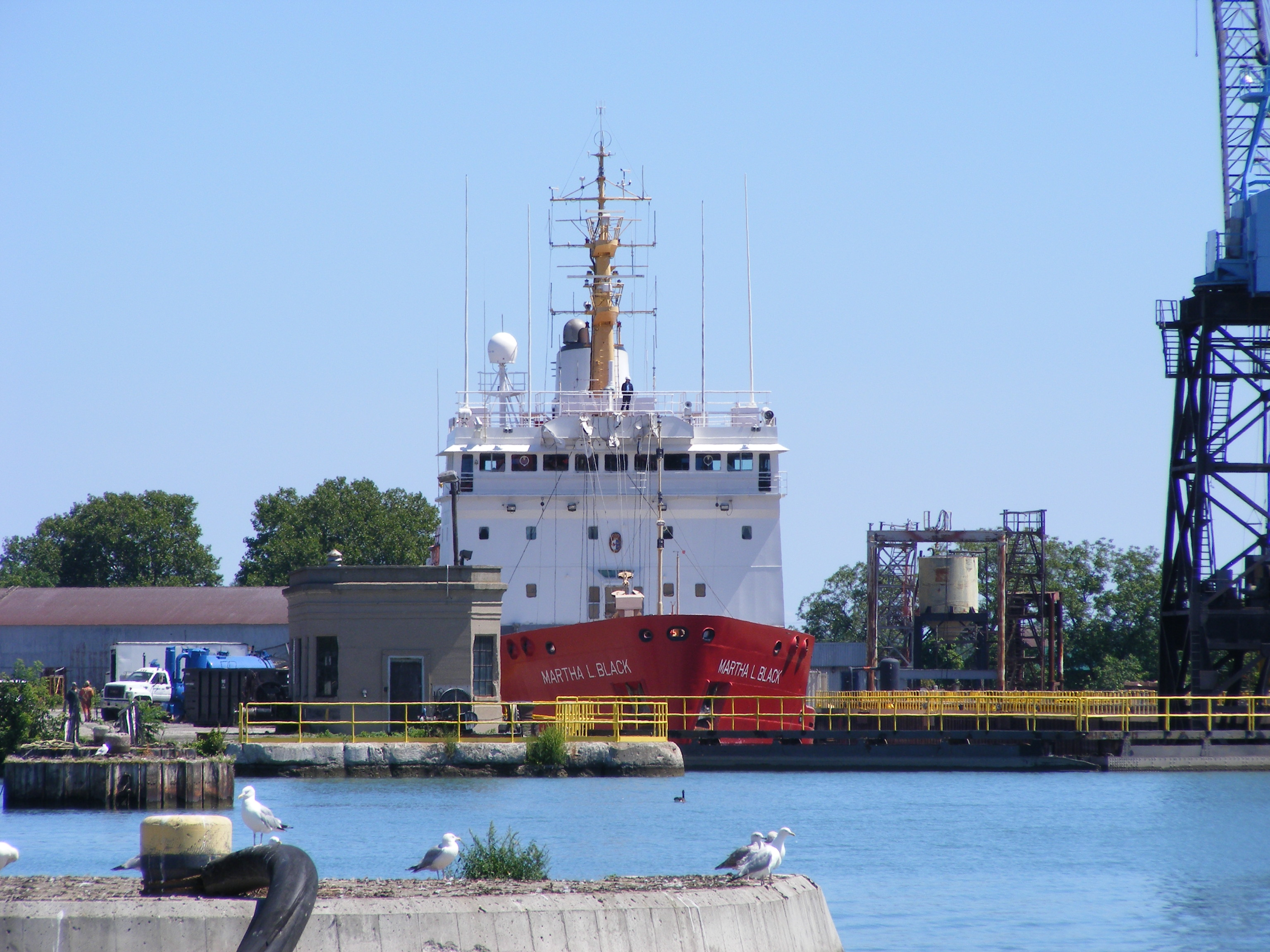 CCGS Martha L. Black in Seaway Marine & Industrial Inc. Port Weller Drydocks.